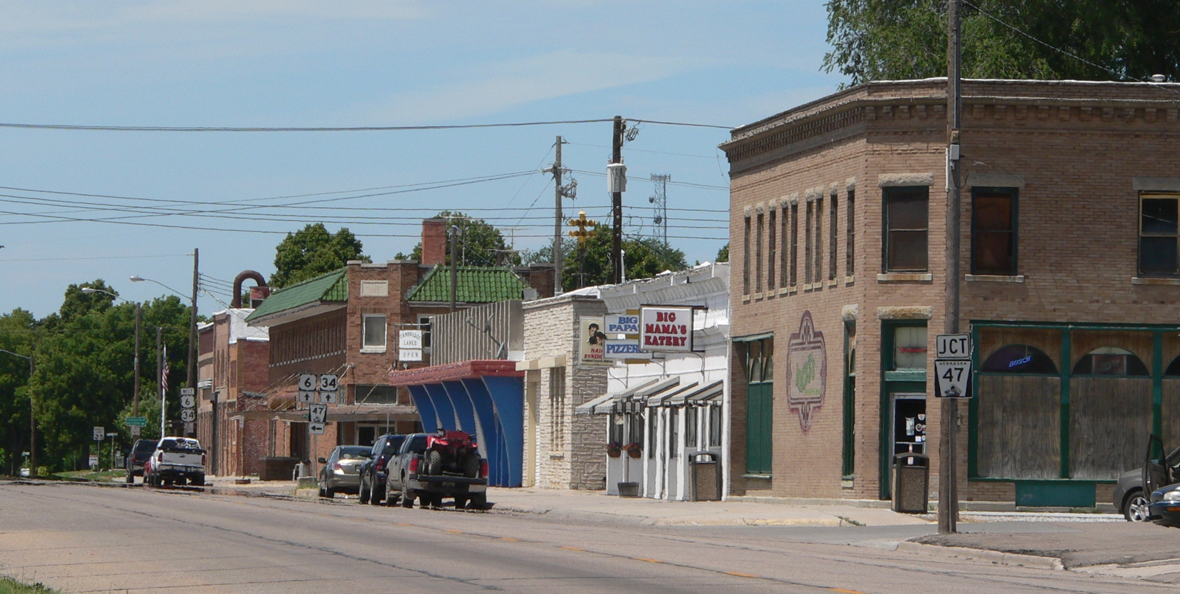 Downtown Cambridge, Nebraska: north side of Nasby Street (U.S. Highway 6/U.S. Highway 34), looking northwest from about Payne Street.